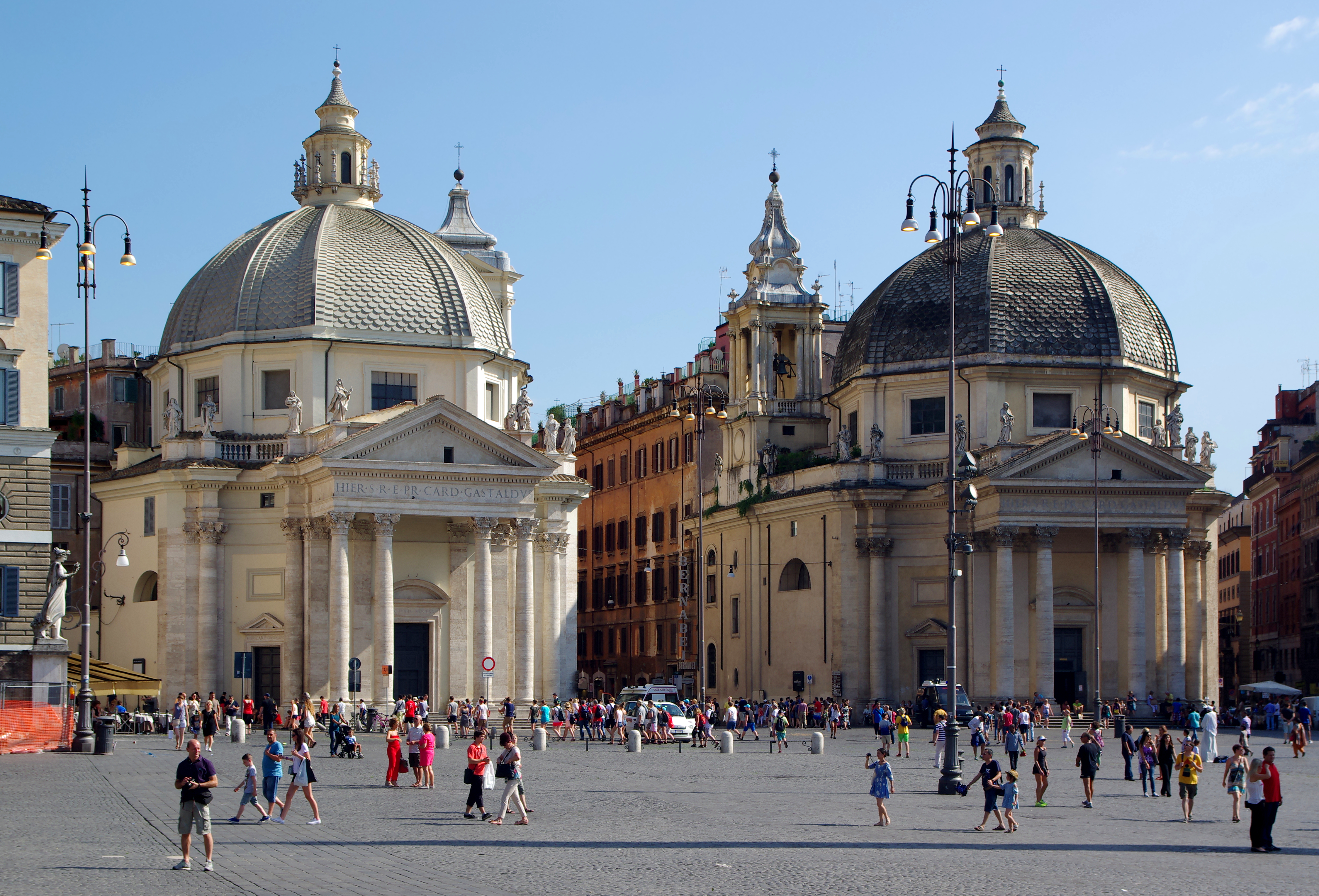 The "twin" churches of Santa Maria di Montesanto (left) and Santa Maria dei Miracoli (right), seen from Piazza del Popolo